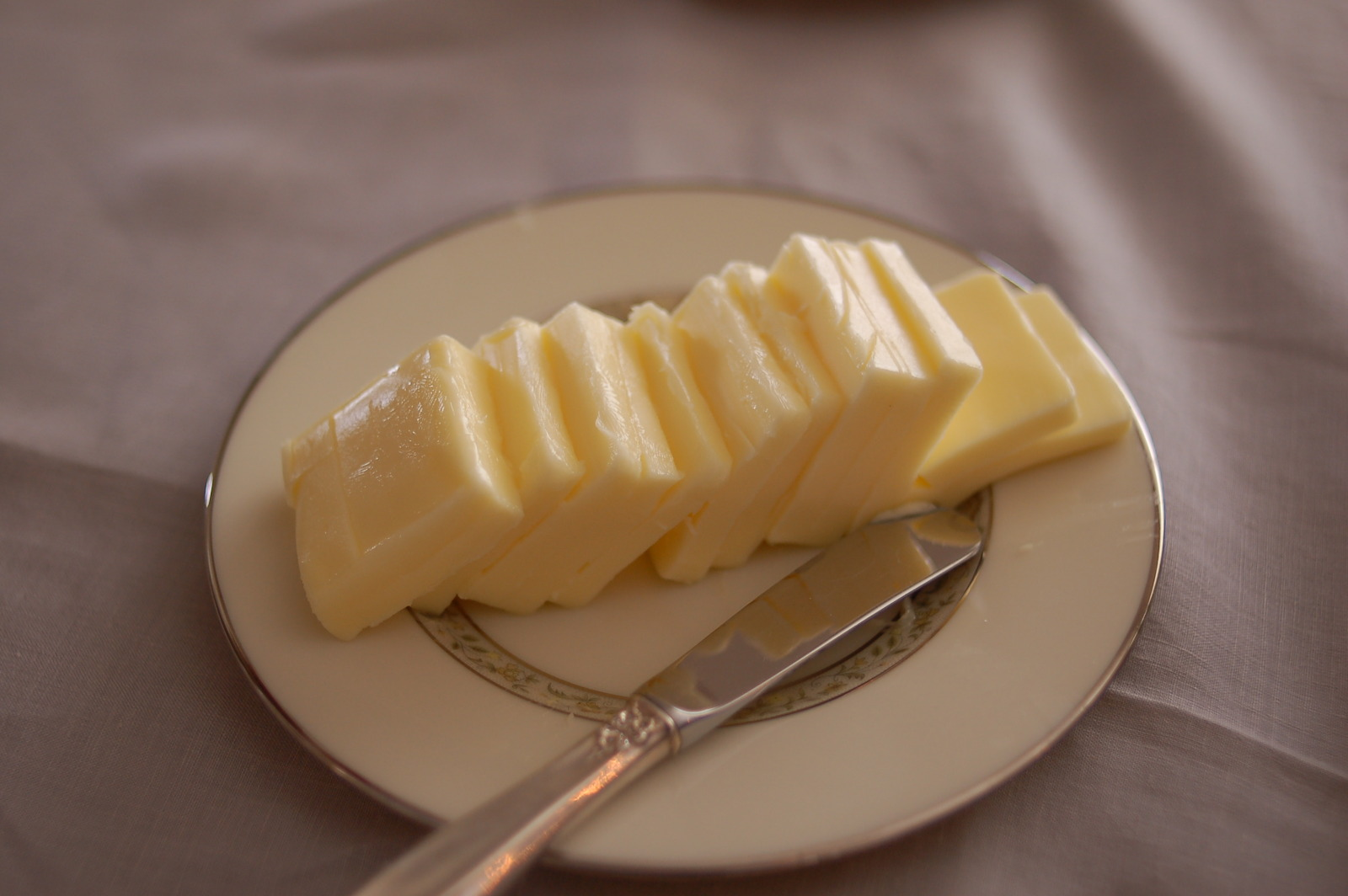 Butter served with a butter knife